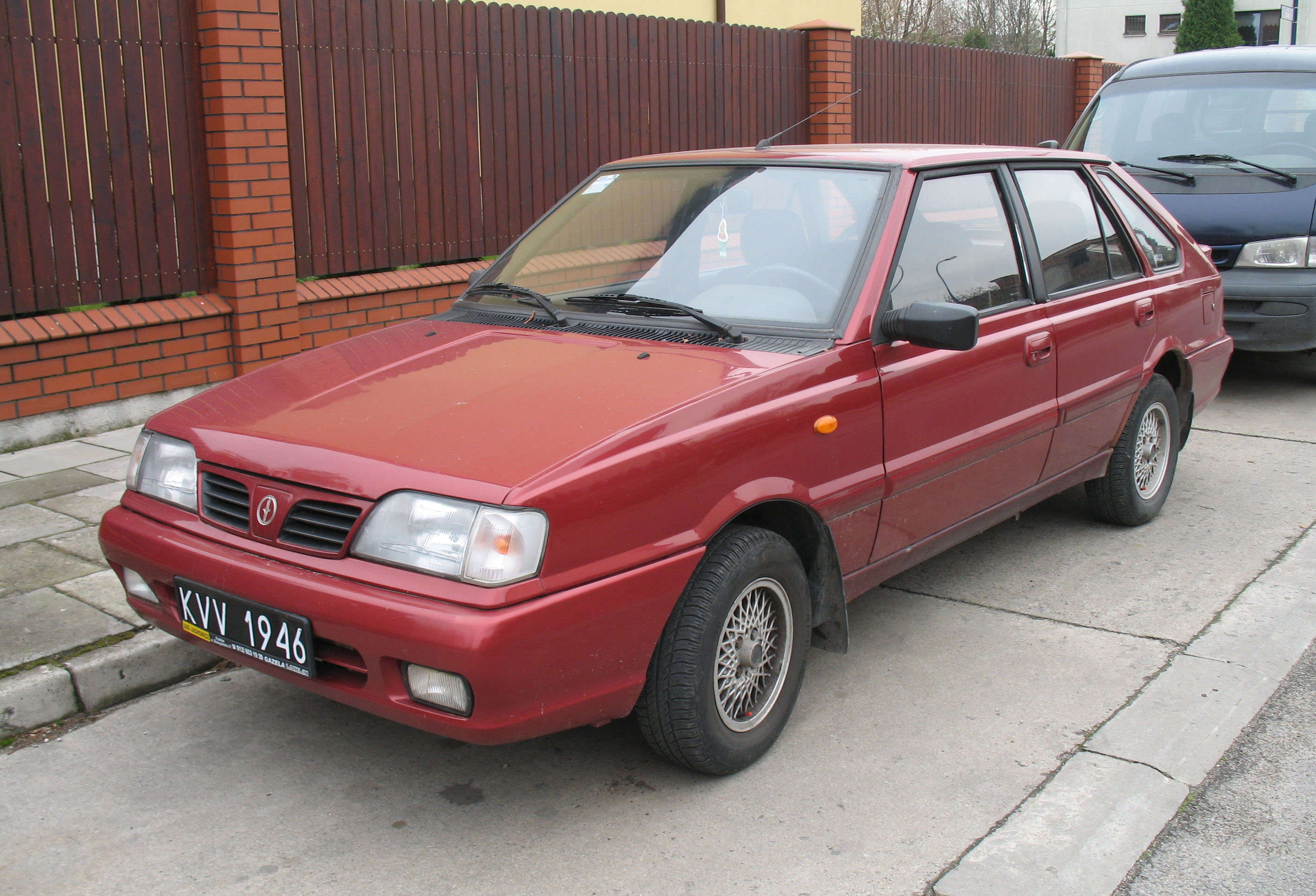 Red Daewoo-FSO Polonez Caro Plus 1.6 GSI multipoint injection car in Kraków, Poland.